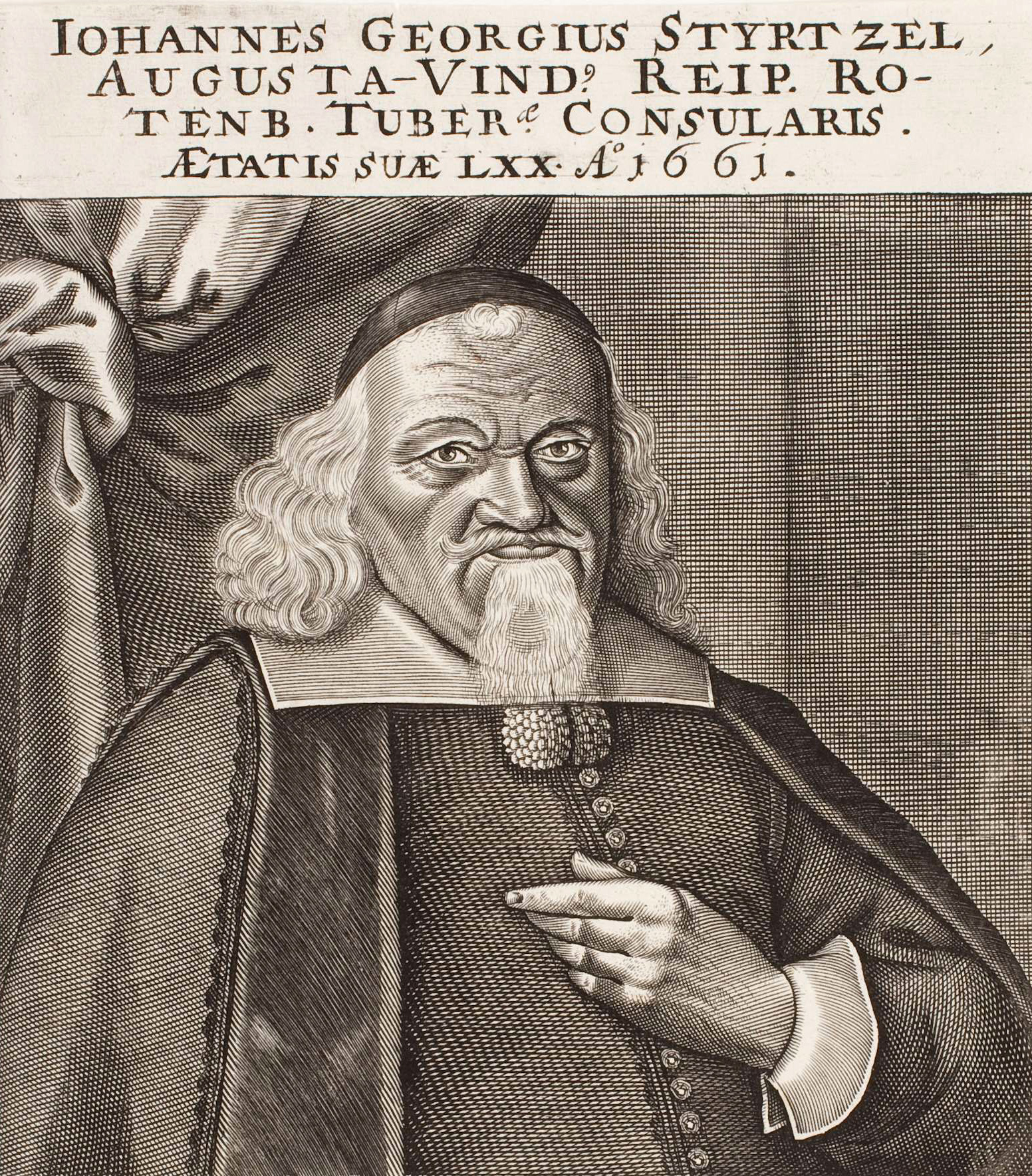 Portrait of Johann Georg Styrzel at the age of 70 years.